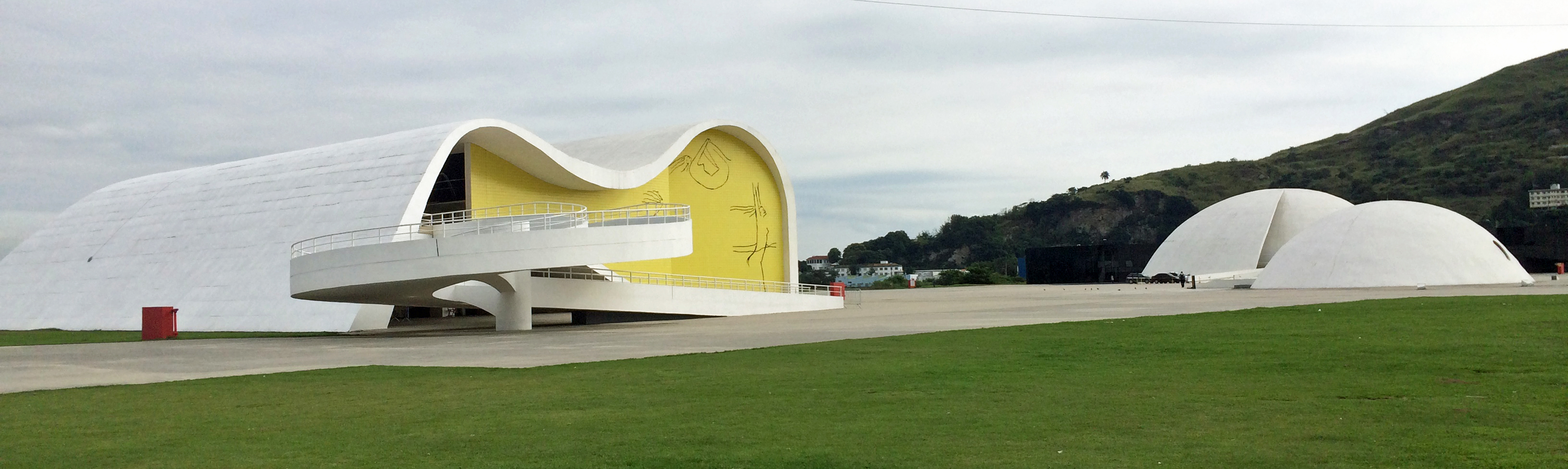 Teatro Popular de Niterói, Caminho Niemeyer, Rio de Janeiro state, Brazil